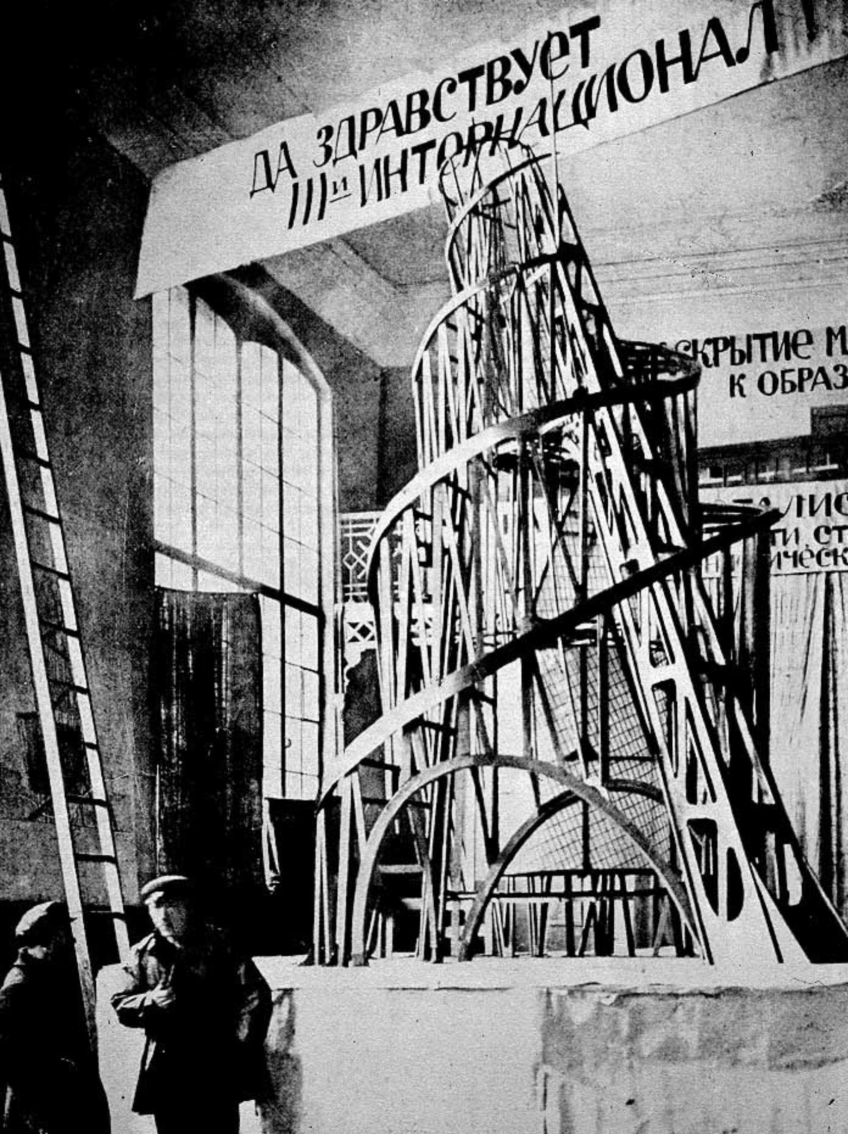 Vladimir Tatlin and an assistant in front of the model for the Third International